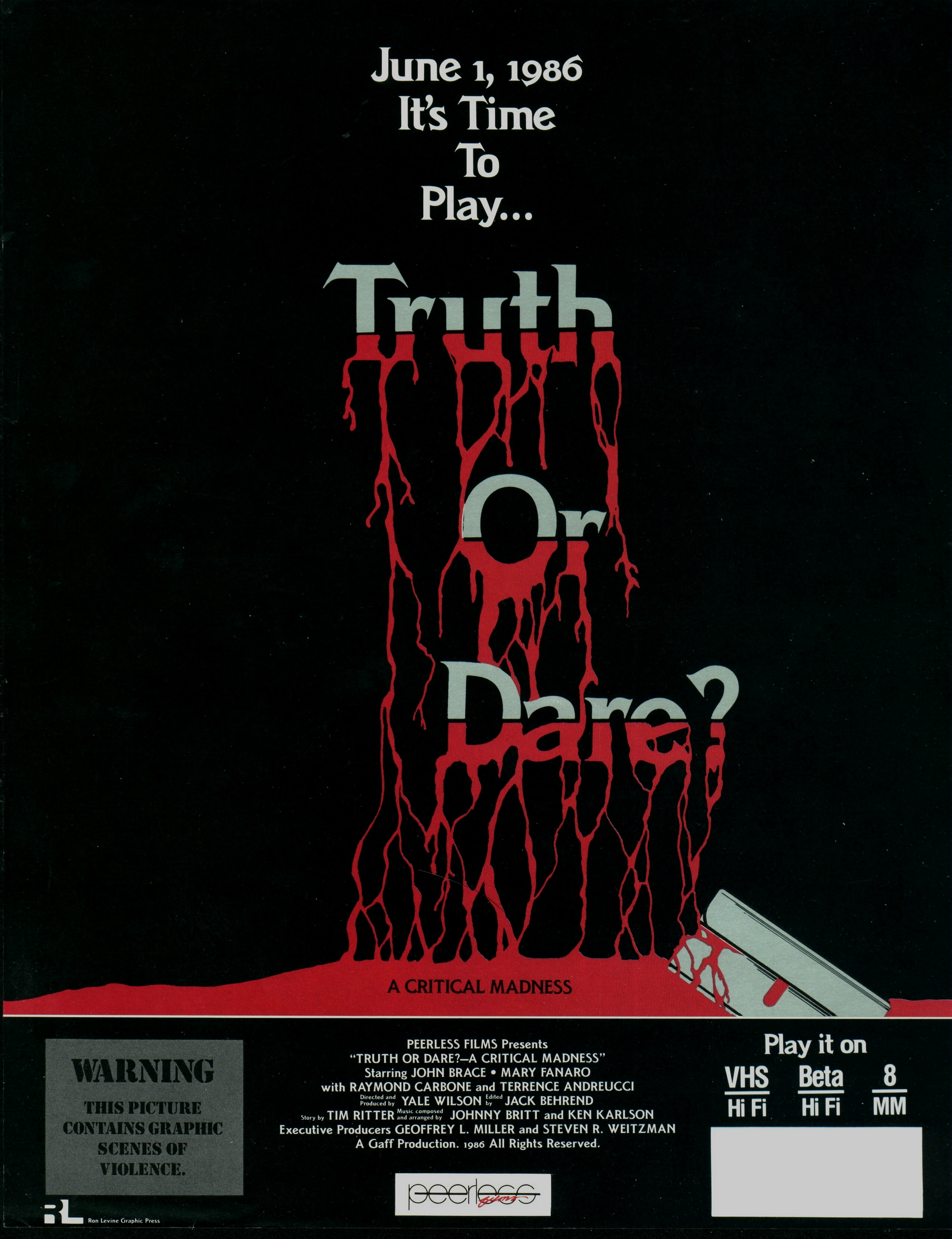 A poster for the movie Truth or Dare?: A Critical Madness